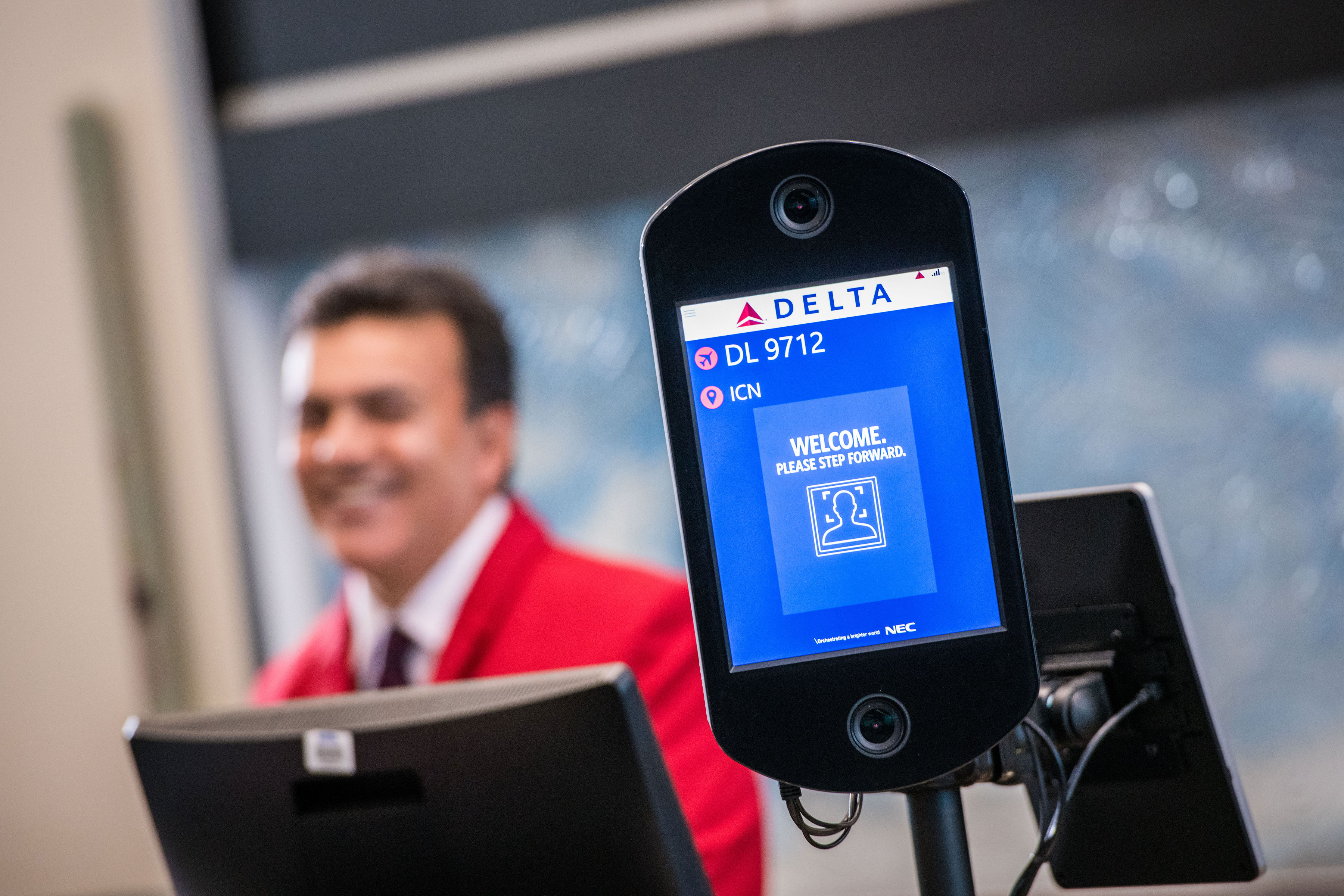 Delta Air Lines reveals their new biometric scanning technology at Hartsfield-Jackson International Airport in Atlanta, Ga. on Monday, November 19, 2018. (Photo by John Paul Van Wert/Rank Studios 2018)